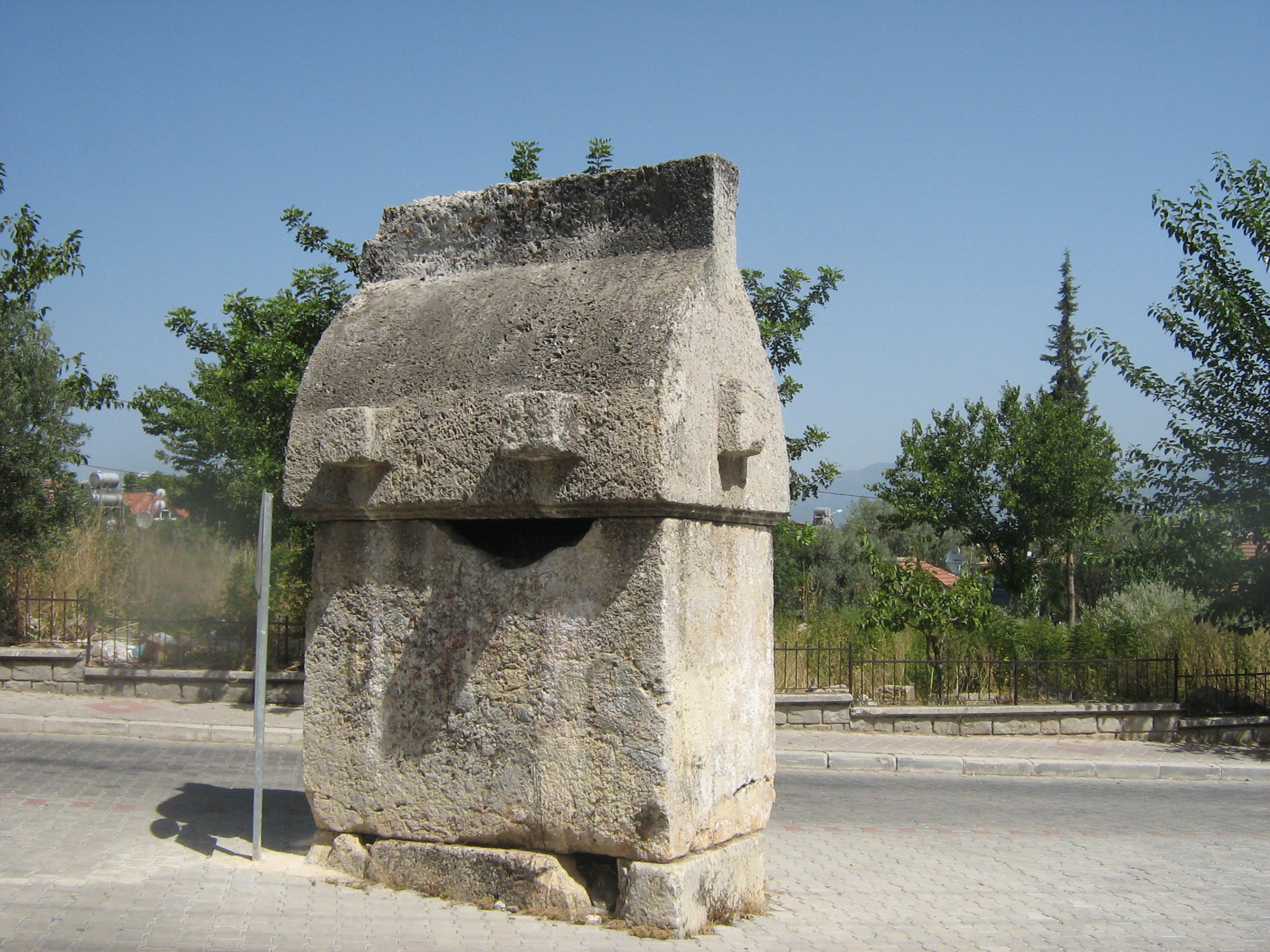 Lykien sarcophagus on an street in Fethiye (Turkey)